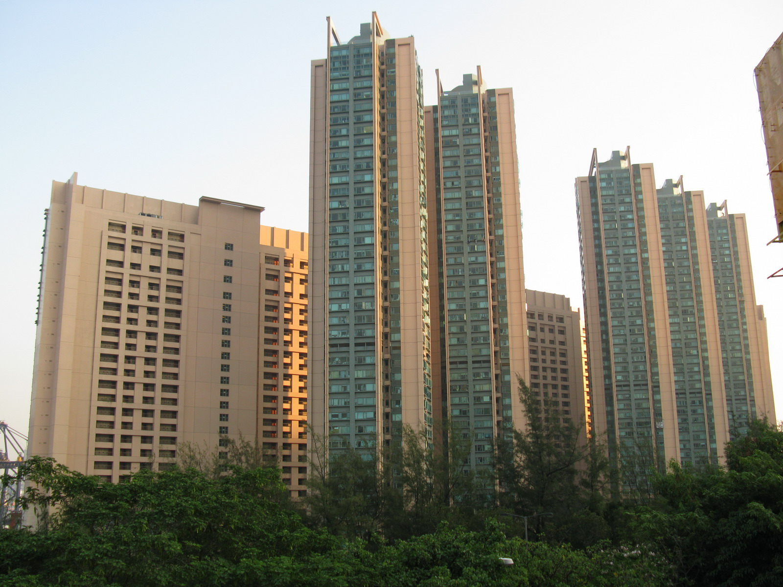 青衣 藍澄灣 Rambler Crest, Tsing Yi